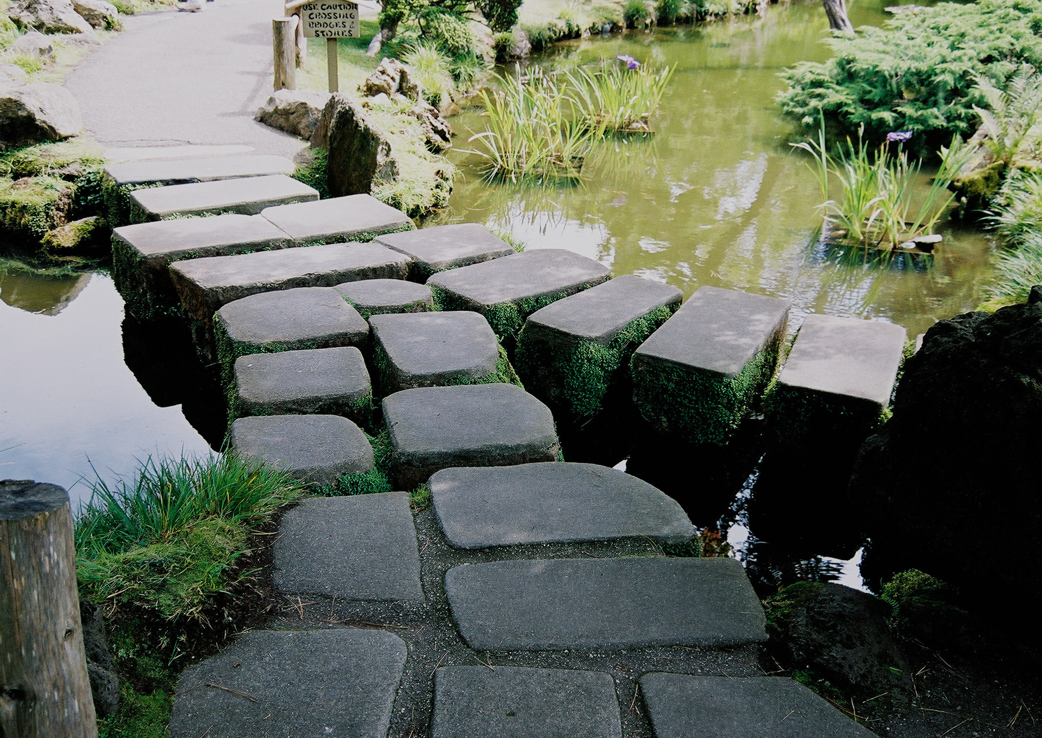 A garden path bridge in the Tea Garden of San Francisco's Golden Gate Park, USA.